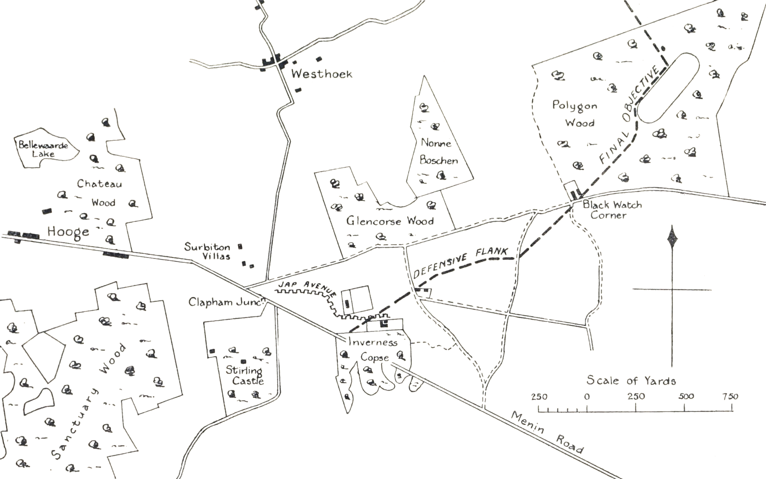 Objectives of the 56th (1/1st London) Division, Battle of Langemarck 16–18 August 1917